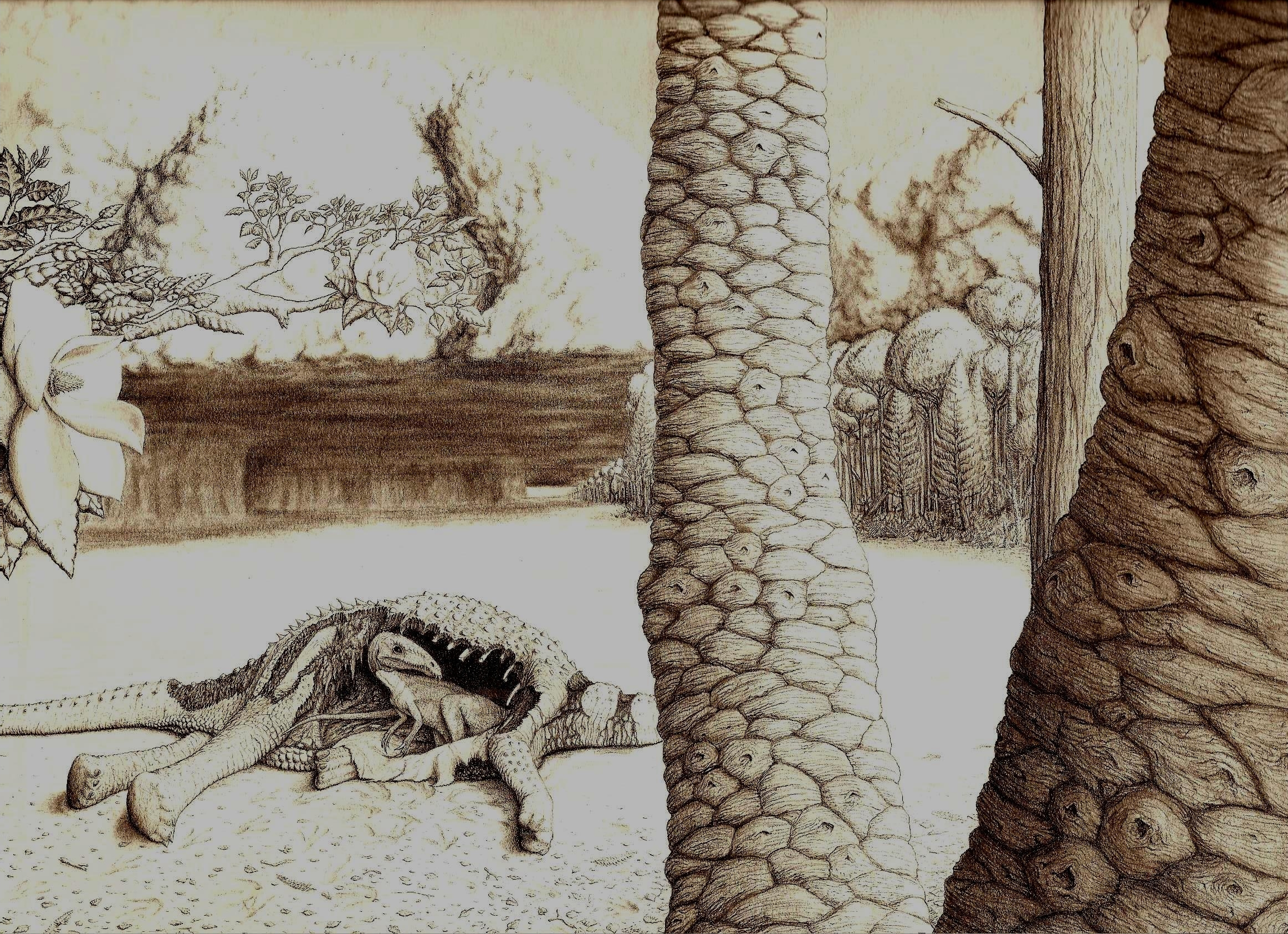 Masiakasaurus scavenges a Rapetosaurus corpse.